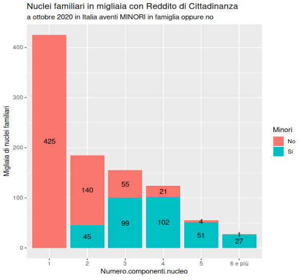 File realizzato con RStudio